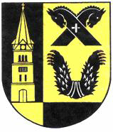 Coat of Arms of Schwarme First upload in de-wp: Schmid01 (14:27, 26. Sep. 2006)